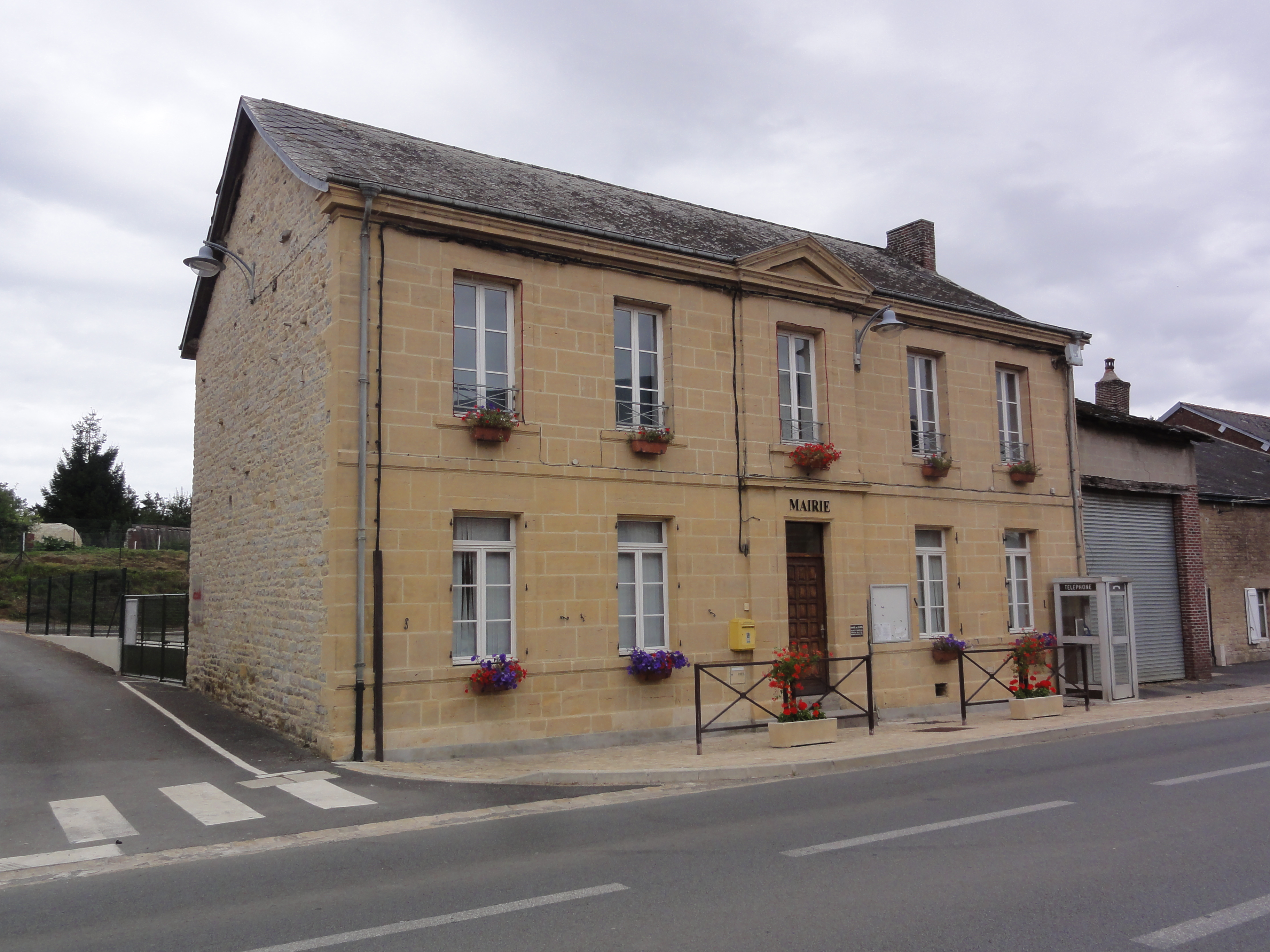 Cliron (Ardennes) mairie